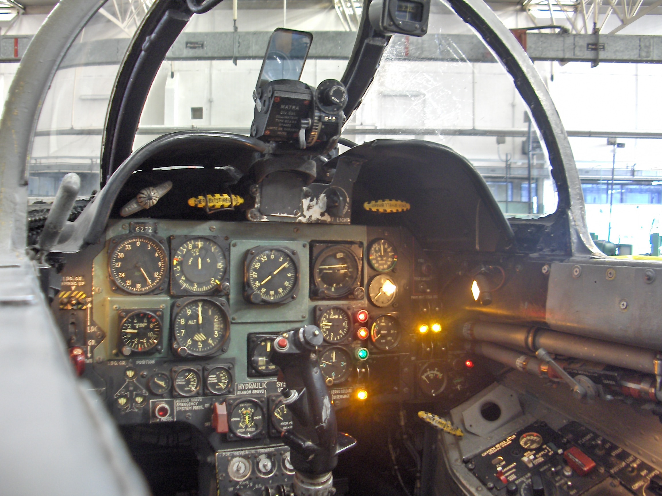 Cockpit of G-91 of Italian Air Force at Istituto Tecnico Industriale Aeronautico "Malignani", Udine (Italy)